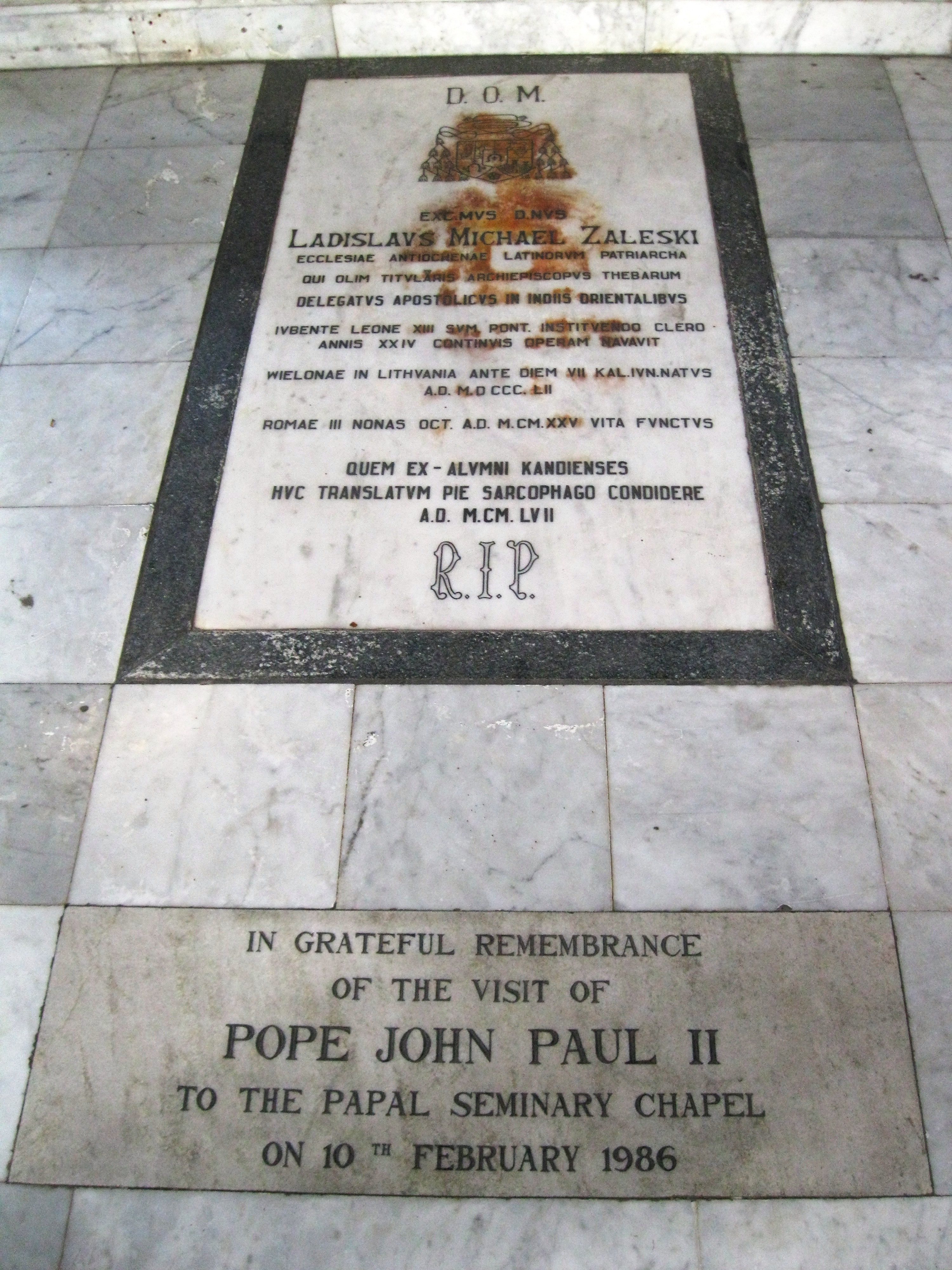 A plaque at the place where Pope John Paul II knelt to pray in front of the remains of his compatriot Waldyslaw Zaleski, in the Papal Seminary chapel, Pune